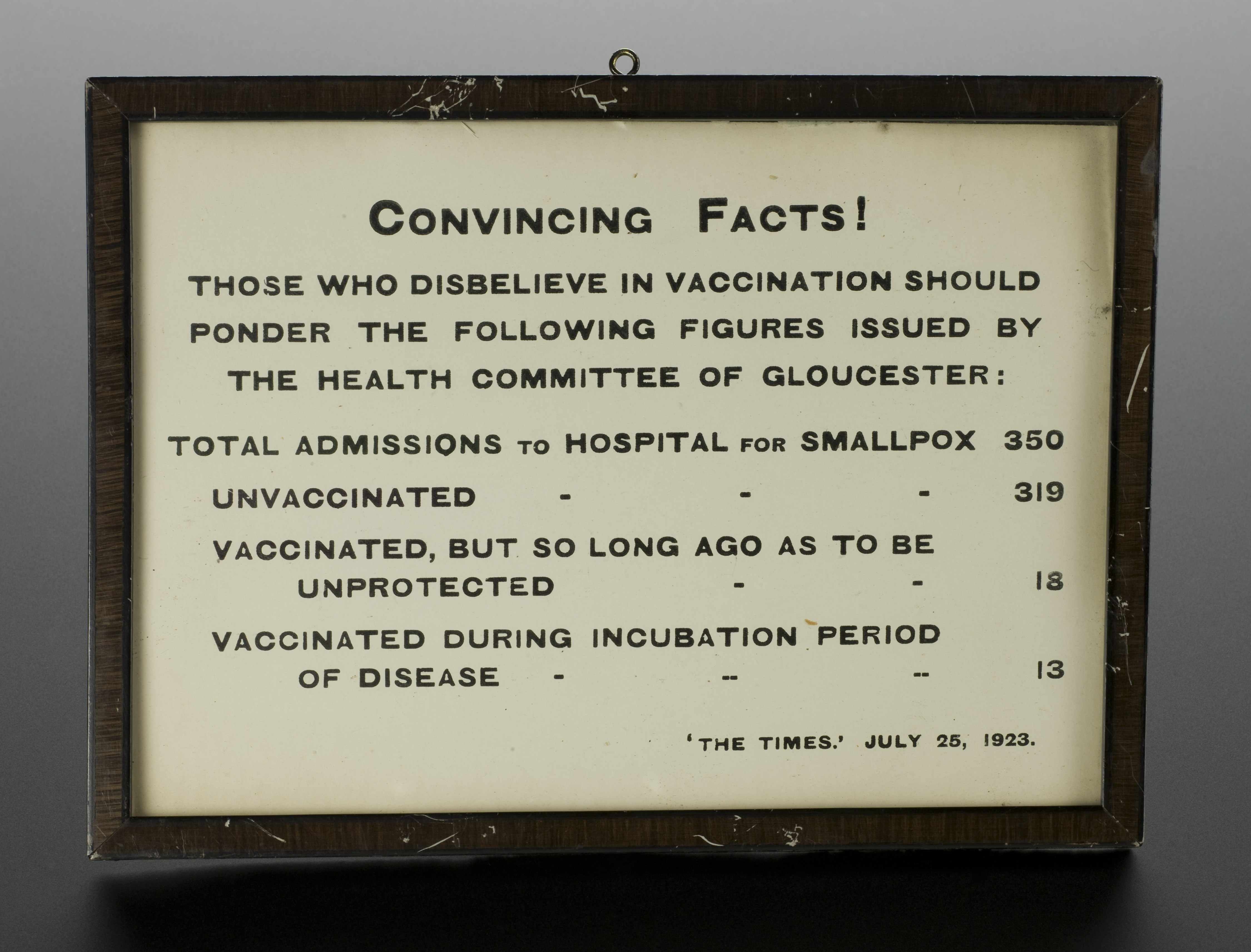 This poster appeared as an article in The Times on 25 July 1923. A smallpox epidemic had been raging in Gloucester, England, and the surrounding areas since the autumn of 1922. The medical correspondent for The Times wrote a month earlier that the outbreak “need never have occurred if the population availed itself of vaccination. Few more lamentable demonstrations of the evil effects of a stupid and mischievous propaganda have ever been afforded.” Here the writer is referring to the campaigns against smallpox vaccination. Some people doubted the safety of the vaccine and believed it to cause more damage to the body than the actual disease. maker: Unknown maker Place made: England, United Kingdom Wellcome Images Keywords: Vaccination; poster; epidemic; Vaccines; Epidemics; vaccine; Posters; Smallpox